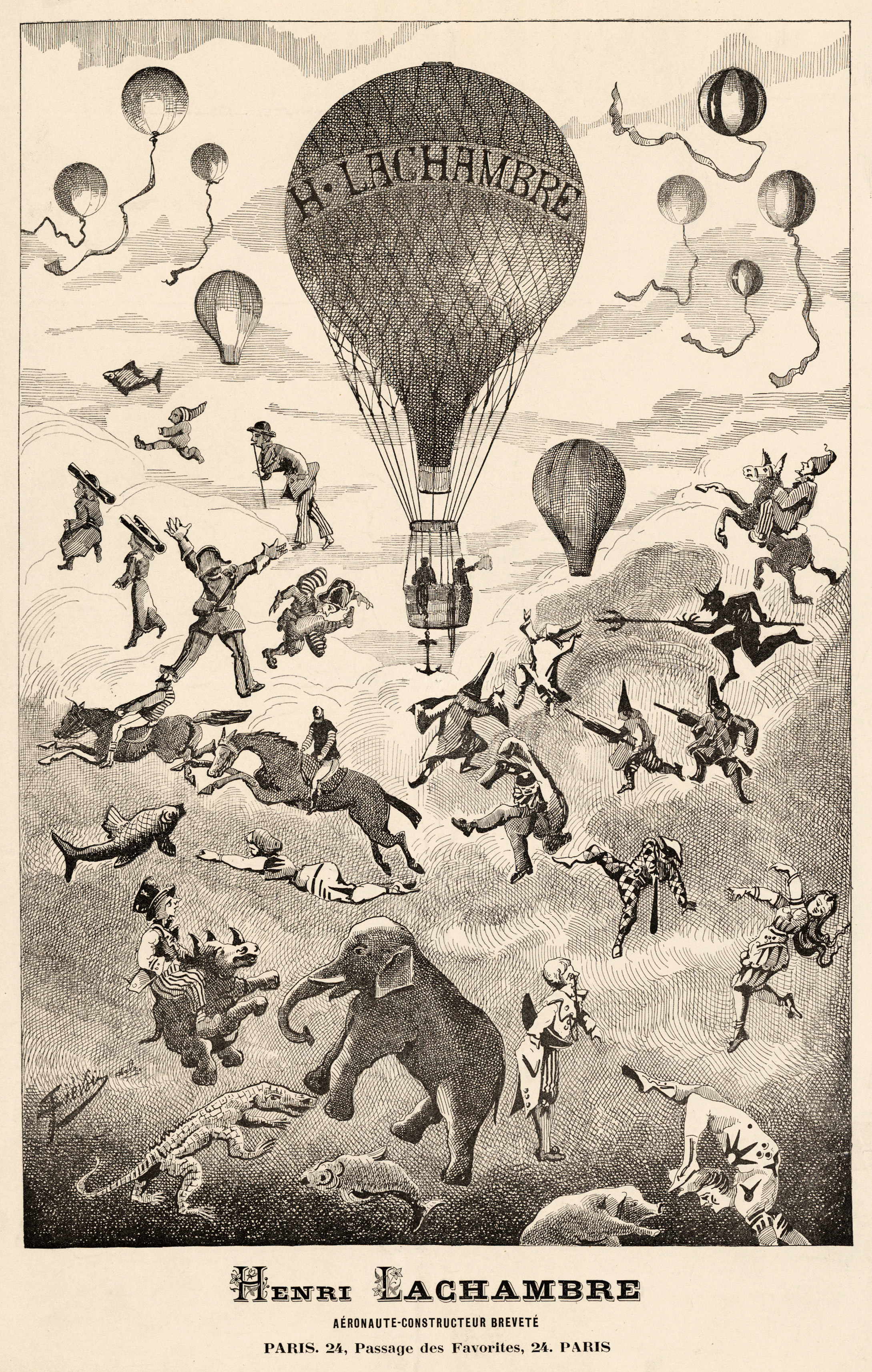 Advertisement for aeronaut and balloon manufacturer Henri Lachambre shows a balloon Text: "H. Lachambre" with two passengers floating through a scene of animals, circus performers, and toy balloons. Henri Lachambre, aéronaute-constructeur breveté. Paris 24., Passage des Favorites, 24. Paris. 1 print : lithograph.